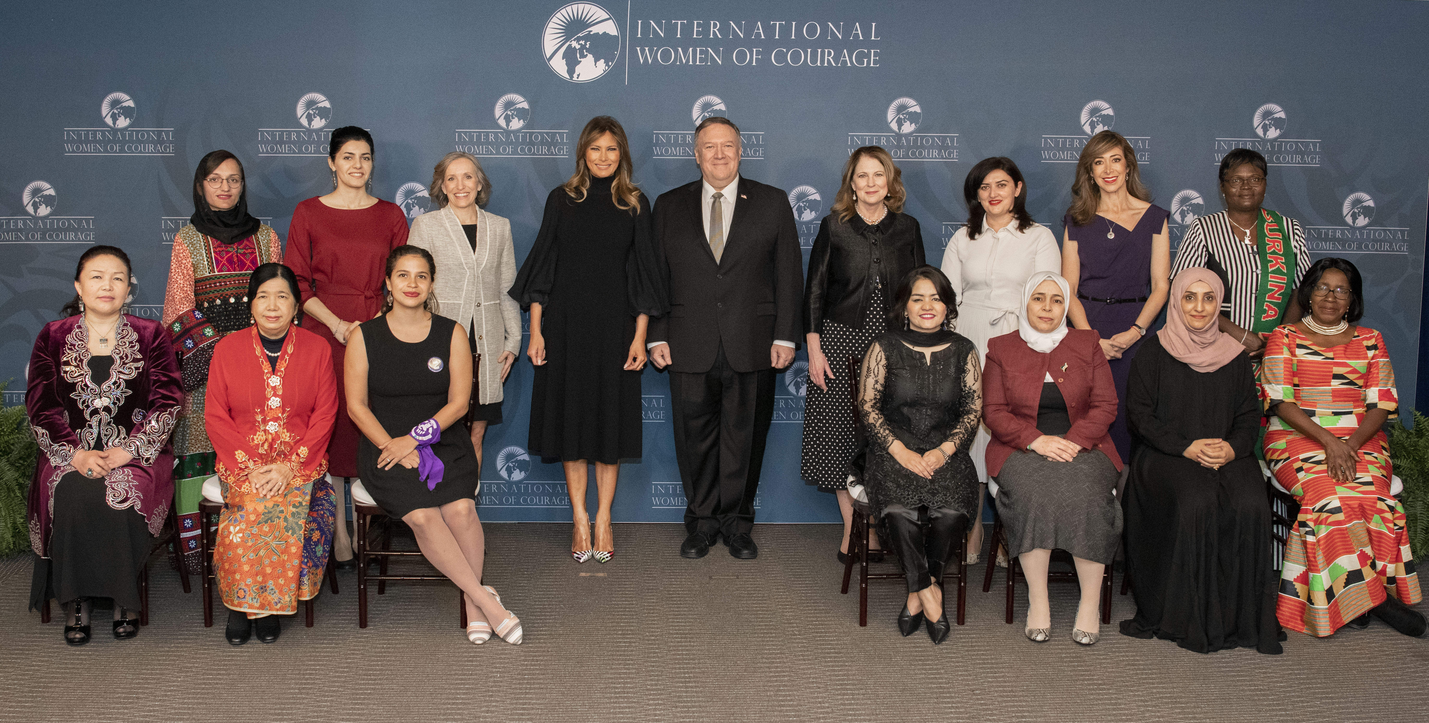 Secretary of State Michael R. Pompeo poses for a photo with First Lady of the United States Melania Trump and the 2020 Annual International Women of Courage awardees, at the Department of State on March 4, 2020. [State Department photo by Freddie Everett/ Public Domain]. There are nine people on the back row. from left to right. 1. Zarifa Ghafari, 2. Lucy Kocharyan, 3. Kelley Eckels Currie, 4. Melania Trump,5.Mike Pompeo, 6. Marie Royce,7. Shahla Humbatova, 8.Ximena Galarza, 9. Claire Ouedraogo of Burkina Faso Seven on the front row: 1. Sayragul Sauytbay, 2. Susanna Liew, 3. Amaya Coppens, 4. Jalilah Haider, 5. Amina Khoulani, 6. Yasmin al Qadhi, 7.Rita Nyampinga.